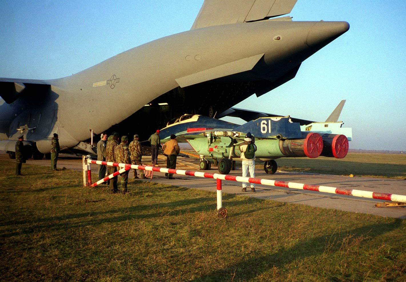 A MiG-29B trainer is winched into a U.S. Air Force C-17 Globemaster III for air shipment from Moldova to the United States on Oct. 28, 1997.